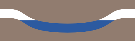 Sketch of a "Syphon".